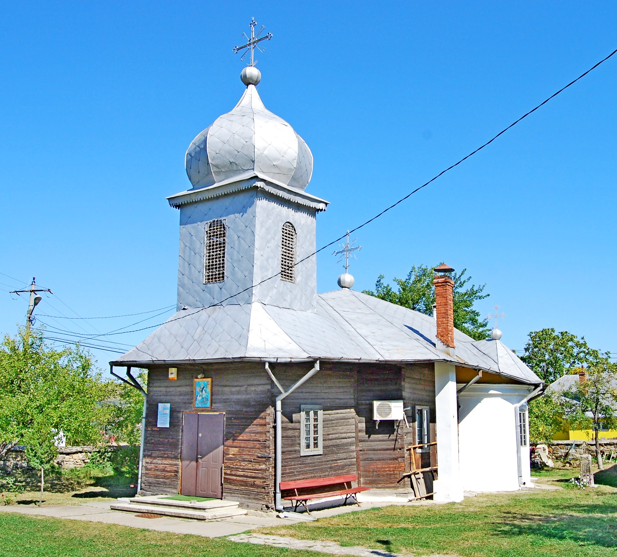 Wooden Church „Saint George” in Târgu Ocna, Bacău county, RomaniaRomână: Biserica de lemn „Sfântul Gheorghe” din Târgu Ocna. Foto: 14 septembrie 2014